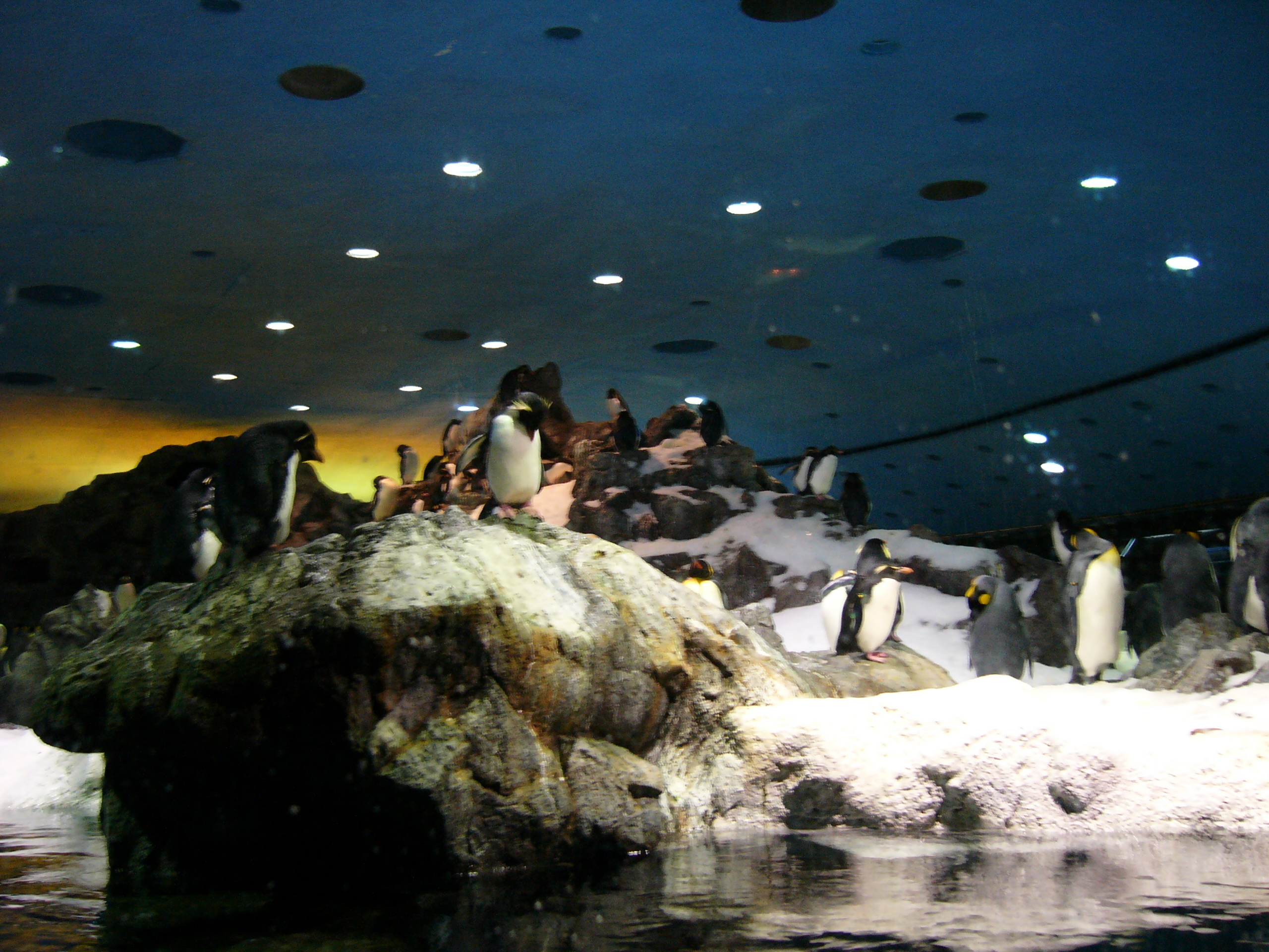 Tenerife: Loro Parque (Puerto de la Cruz) - Penguin House September 2005 Olaf A. Koch own picture